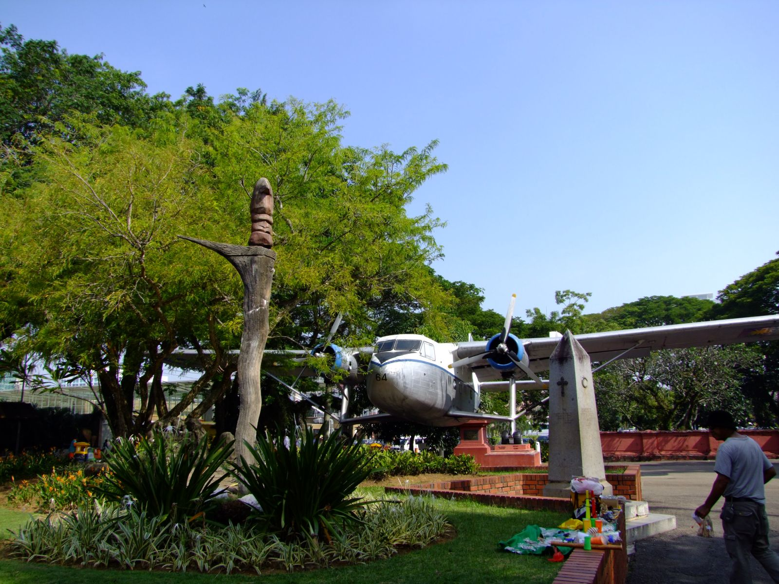 The earliest aircraft obtained by Royal Malaysian Air Force was Scottish Aviation Twin Pioneer Mk.1. “Lang Rajawali” FM1064 c/n 583 were delivered to the Malaysian Air Force on 18 January 1962. It is now on display at the Muzium Pengangkutan Melaka (Melaka Transport Museum) Malacca.